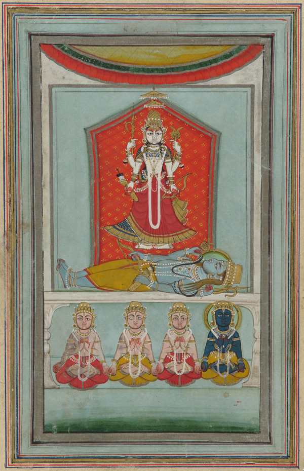 Devi standing, with a four-armed Shiva prostrating, 19th century. Color and gold on paper. Rajput, India.